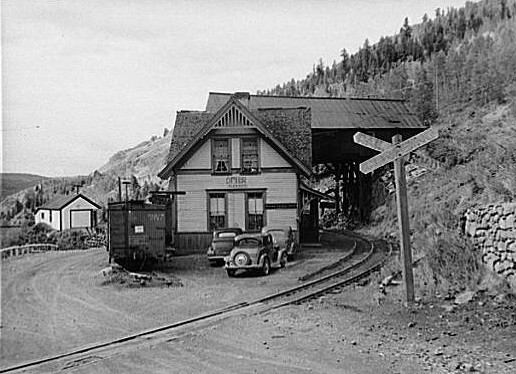 Railway station at Ophir, Colorado.